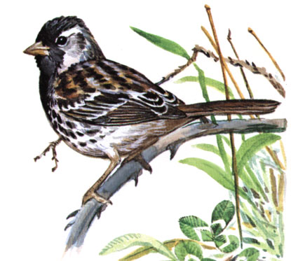 Harris's Sparrow, Zonotrichia querula, Offset reproduction of acrylic painting.